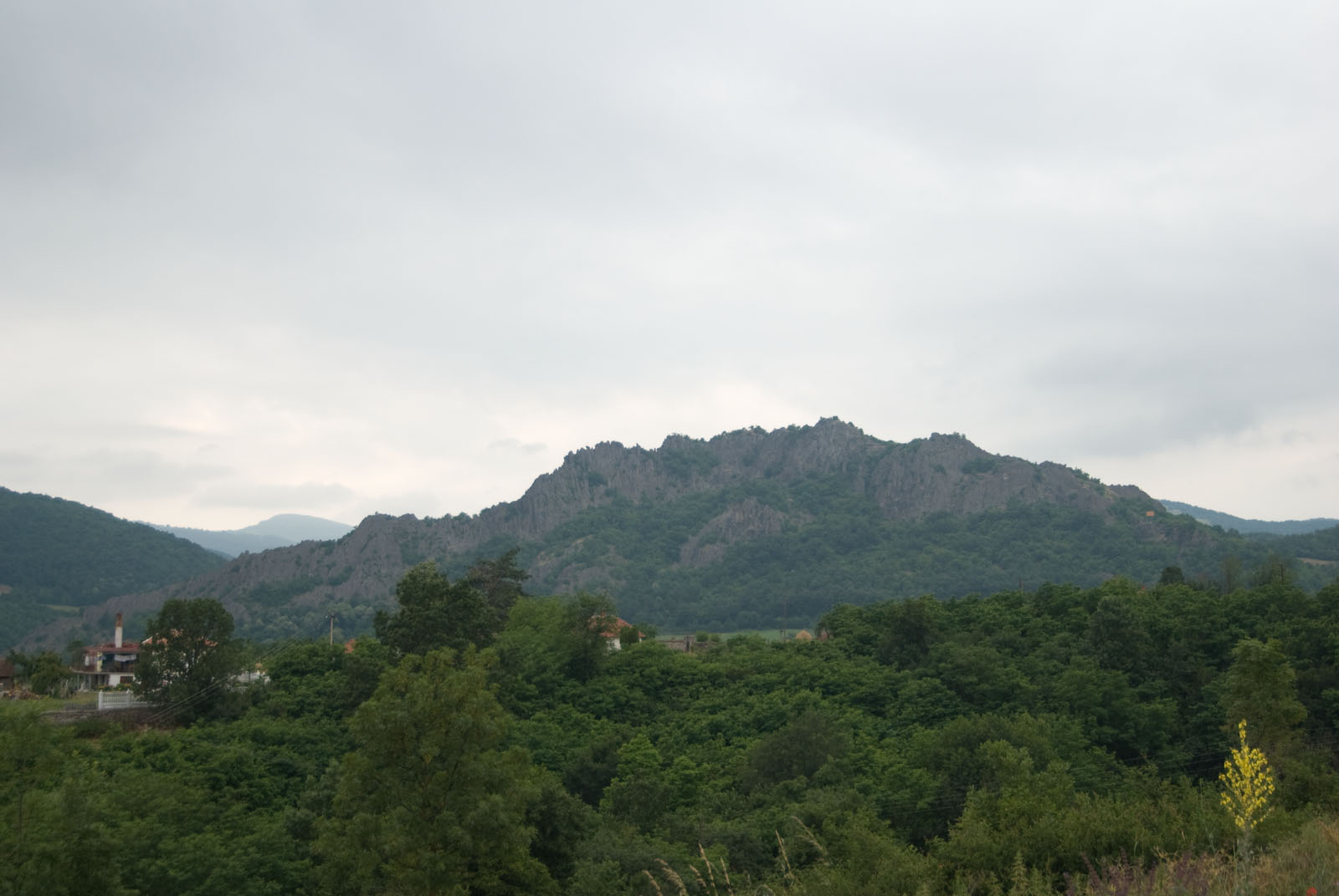 Borač hill, near Knić, Serbia